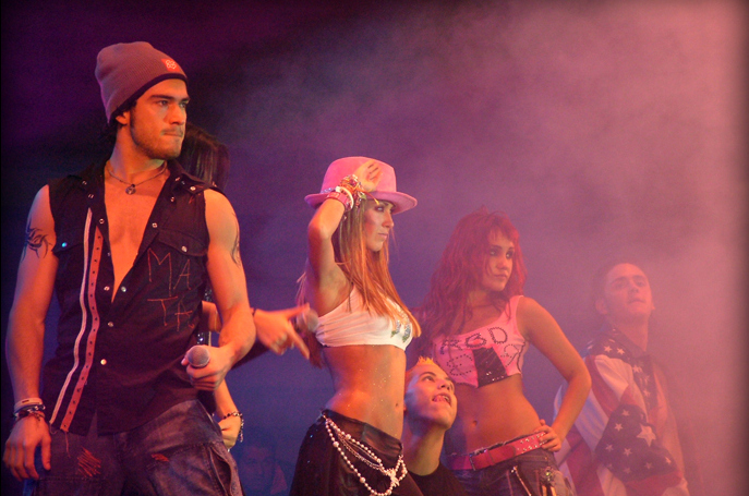 Anahí Puente performing RBD concert in the plaza monumental at the Tijuana Beaches 2009.